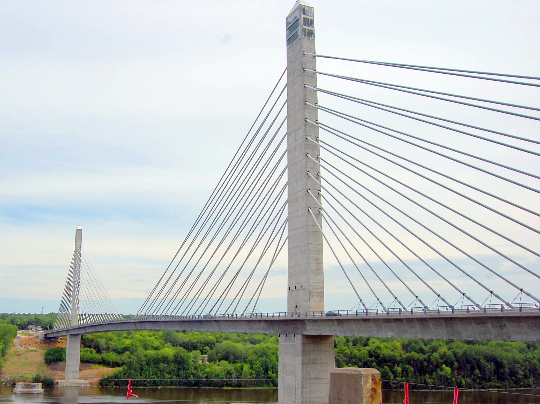 The Penobscot Narrows Bridge and Observatory that carries US Rt. 1 over the Penobscot River between Prospect, ME (Waldo County) and Verona Island (Hancock County), Maine. The Observatory occupies the top of the Waldo County side tower (right).